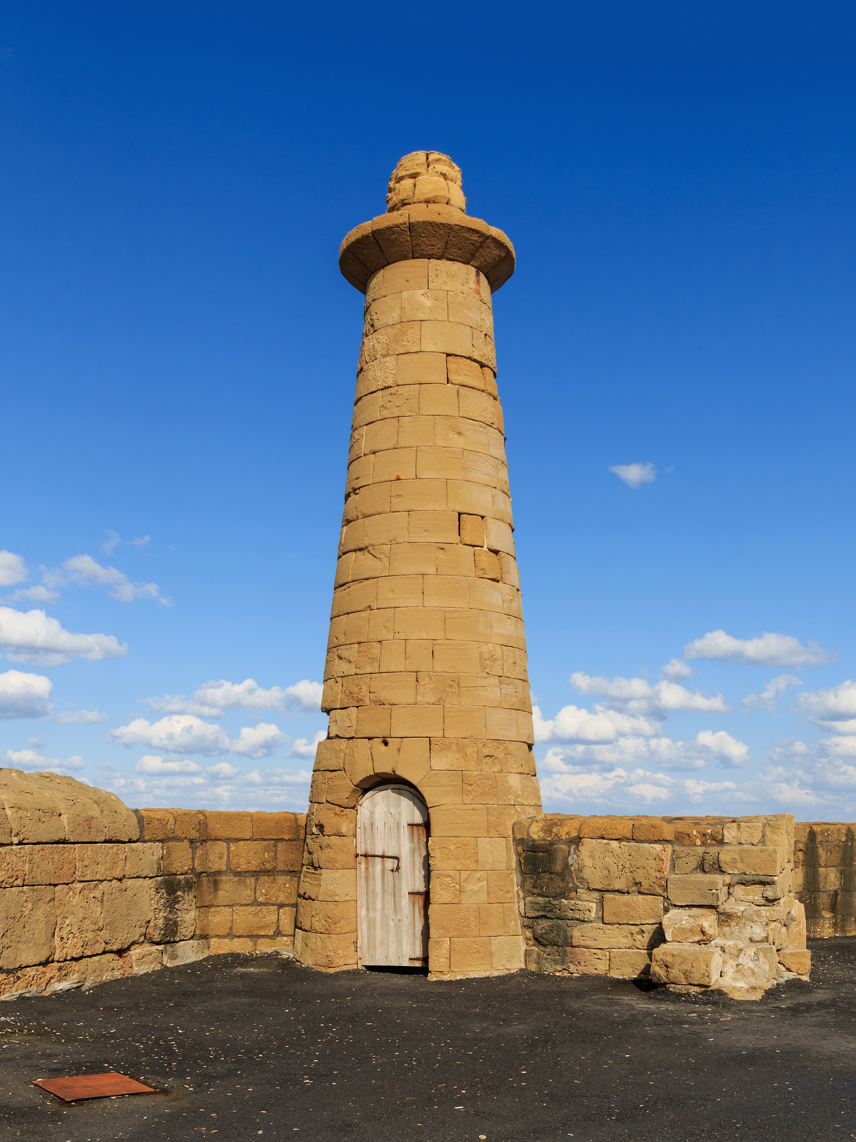 Old Lighthouse on the west mole in Kyrenia, Cyprus